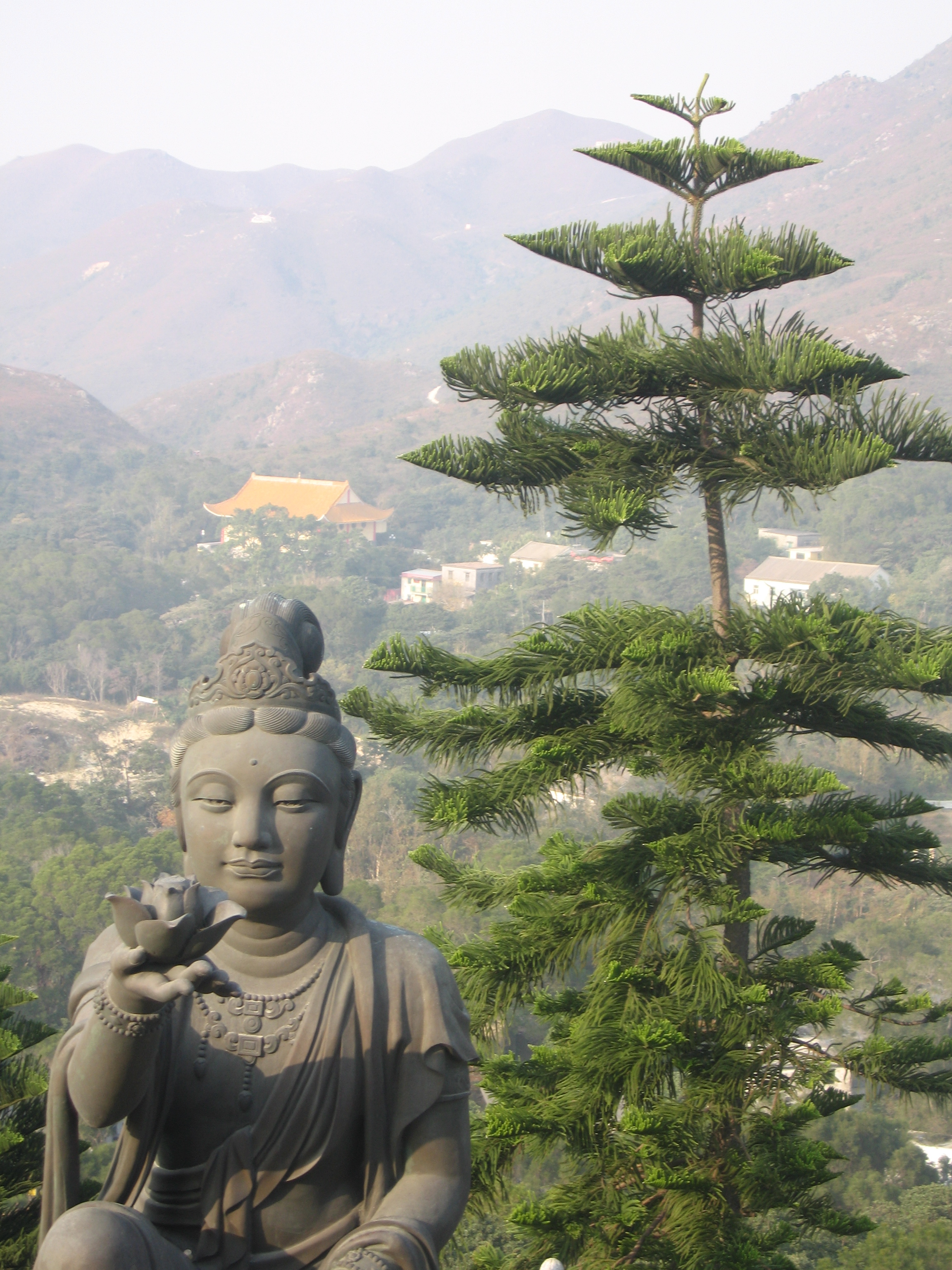 One of the statues surrounding the big buddha on Lantau Island, Hong Kong.